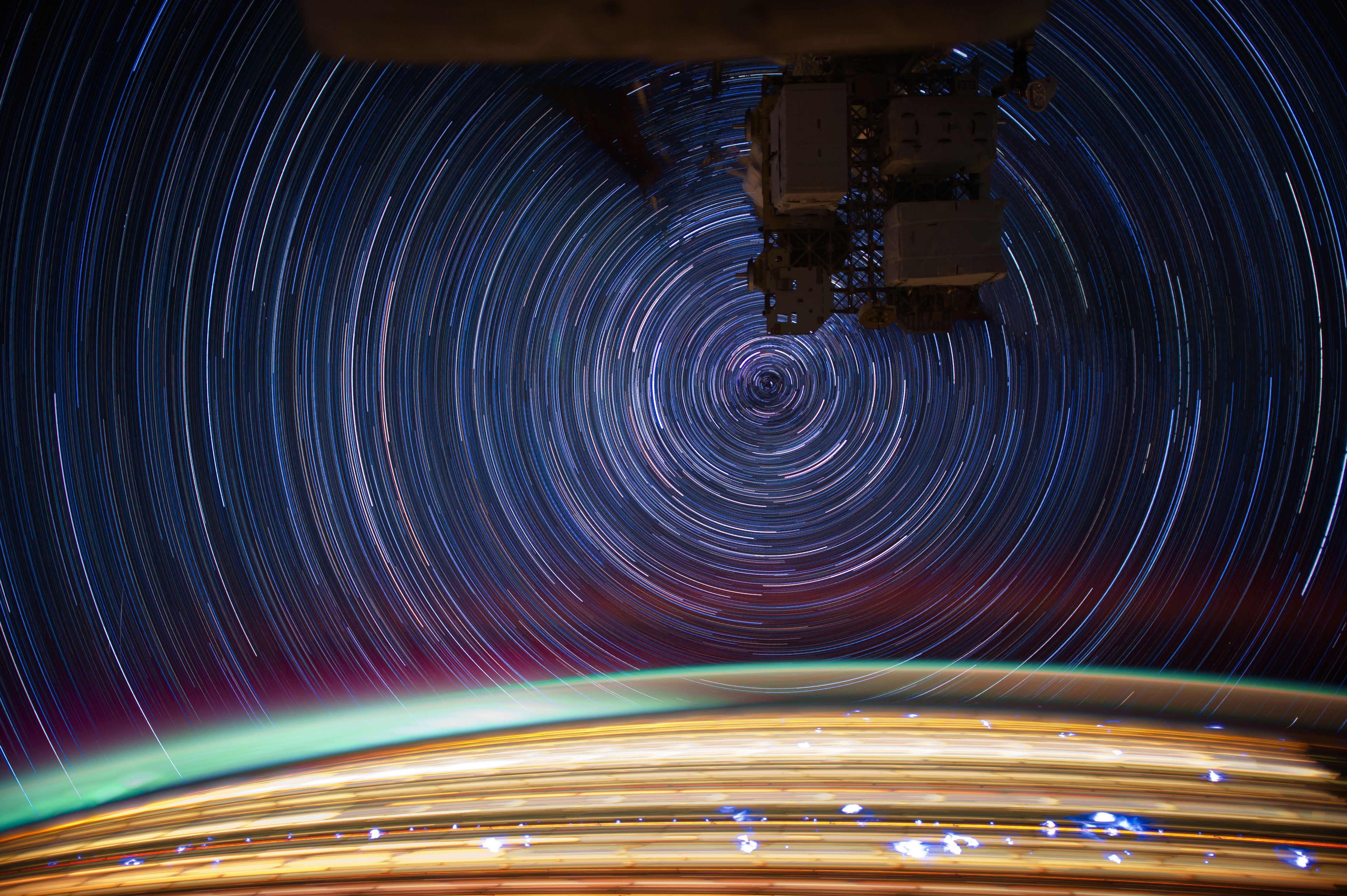 Star trail composite image created by International Space Station Expedition 30 crew member Don Pettit using images ISS030E271722 through ISS030E271757. Expedition 30 and Expedition 31 Flight Engineer Don Pettit provided information about photographic techniques used to achieve the images: "My star trail images are made by taking a time exposure of about 10 to 15 minutes. However, with modern digital cameras, 30 seconds is about the longest exposure possible, due to electronic detector noise effectively snowing out the image. To achieve the longer exposures I do what many amateur astronomers do. I take multiple 30-second exposures, then 'stack' them using imaging software, thus producing the longer exposure."